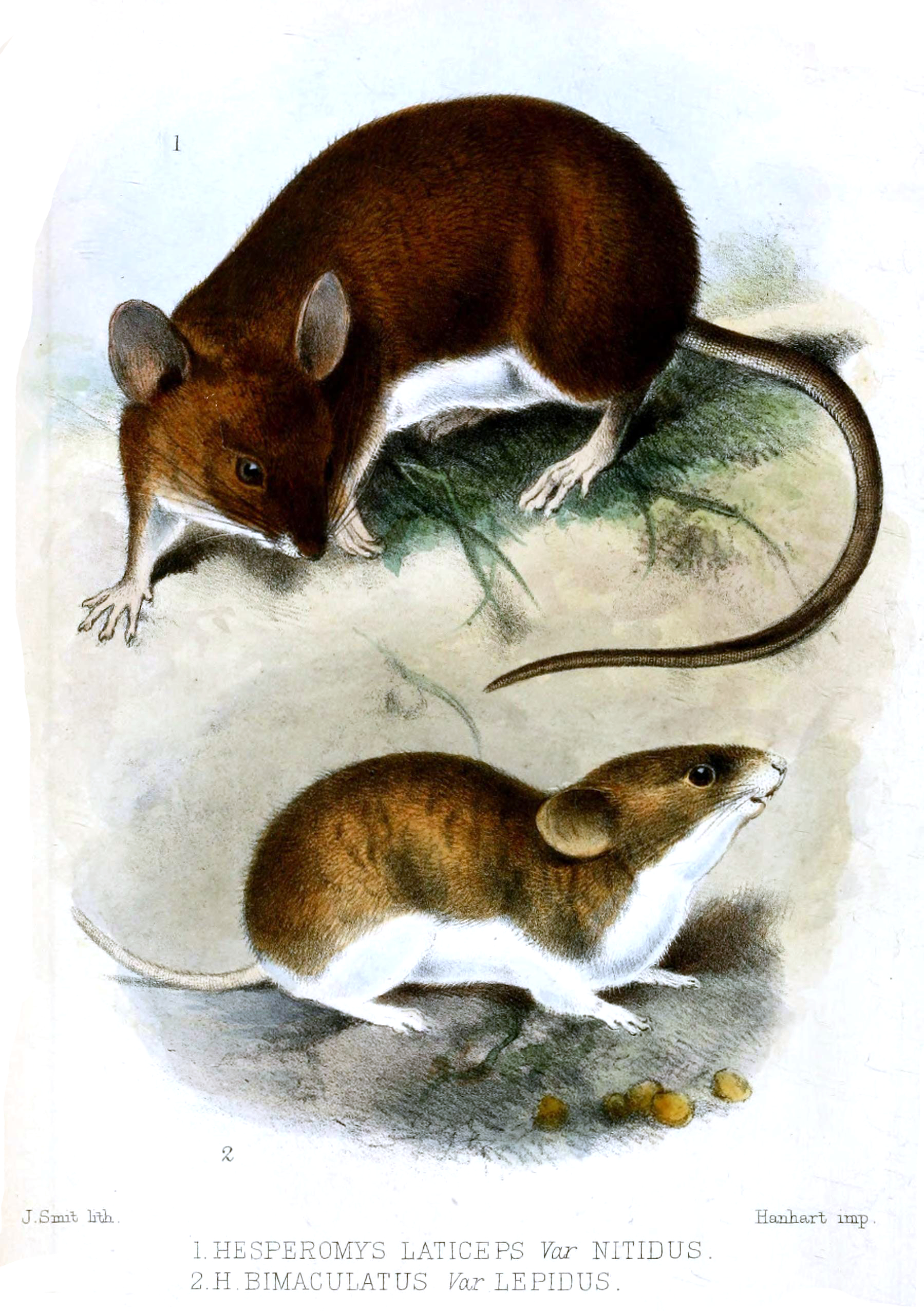 Hesperomys laticeps = Euryoryzomys nitidus Hesperomys bimaculatus = Calomys laucha